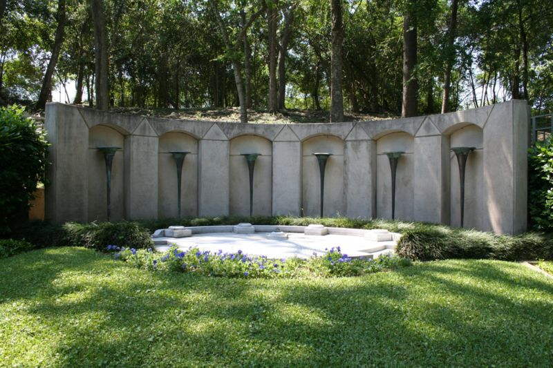 The Hughes Family Grave site, where Howard Hughes is buried